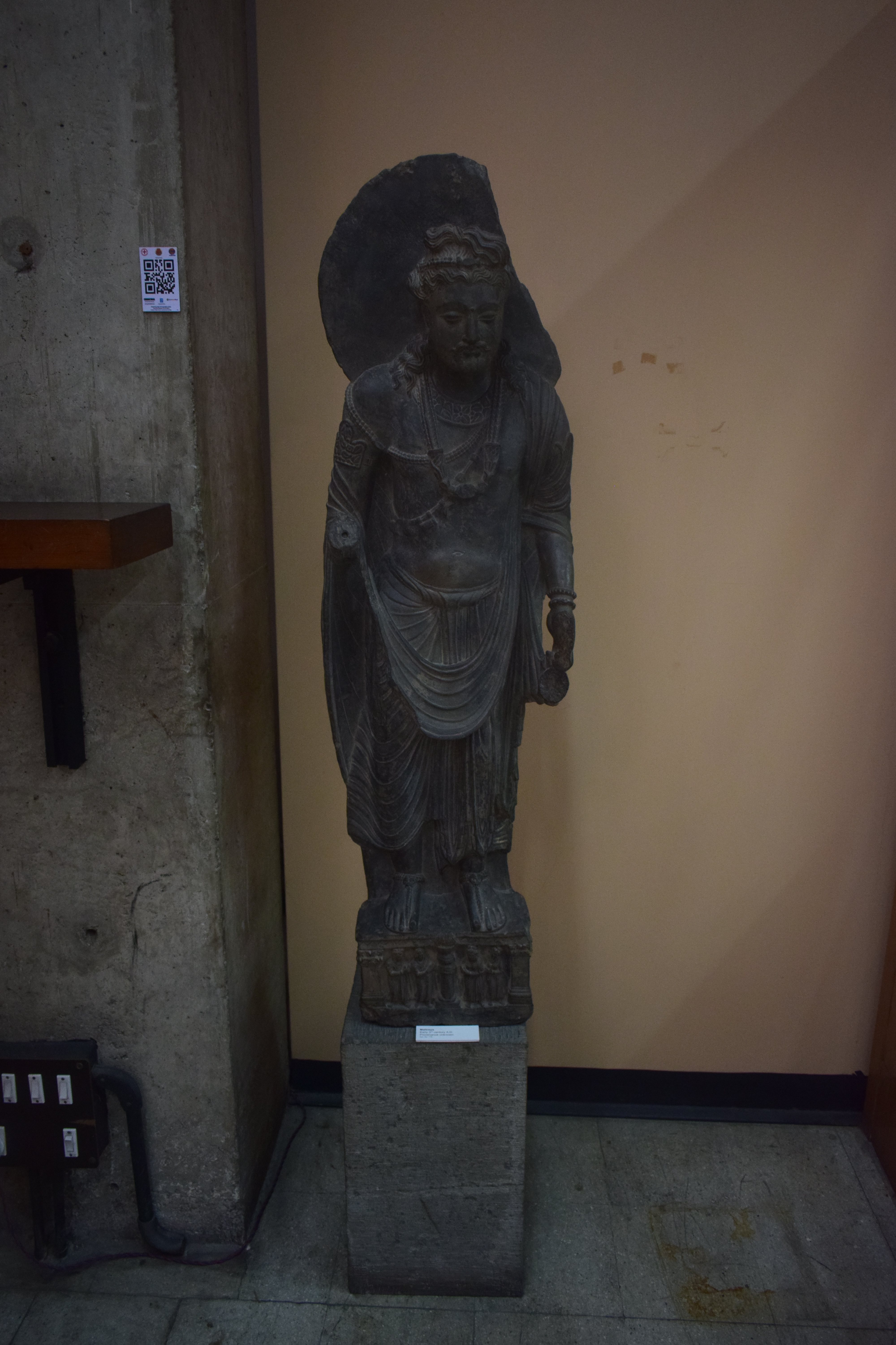 Maitreya from the 3rd century A.D from Government Museum and Art Gallery